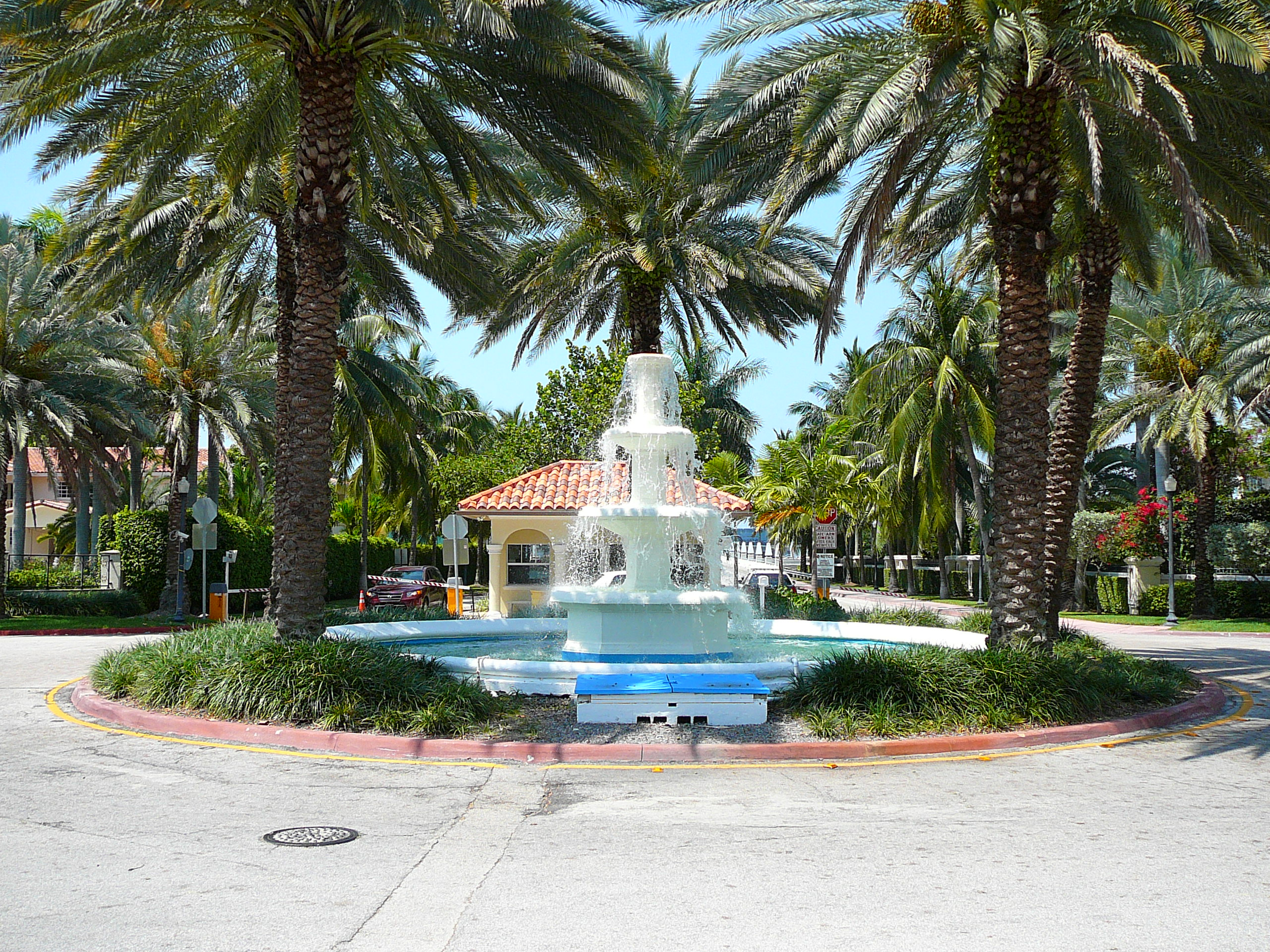 Digital photo taken by Marc Averette. Fountain and guard gate at the entrance to Palm Island in Miami Beach, Florida, south of Hibiscus Island and just north of the MacArthur Causeway 5/17/2008